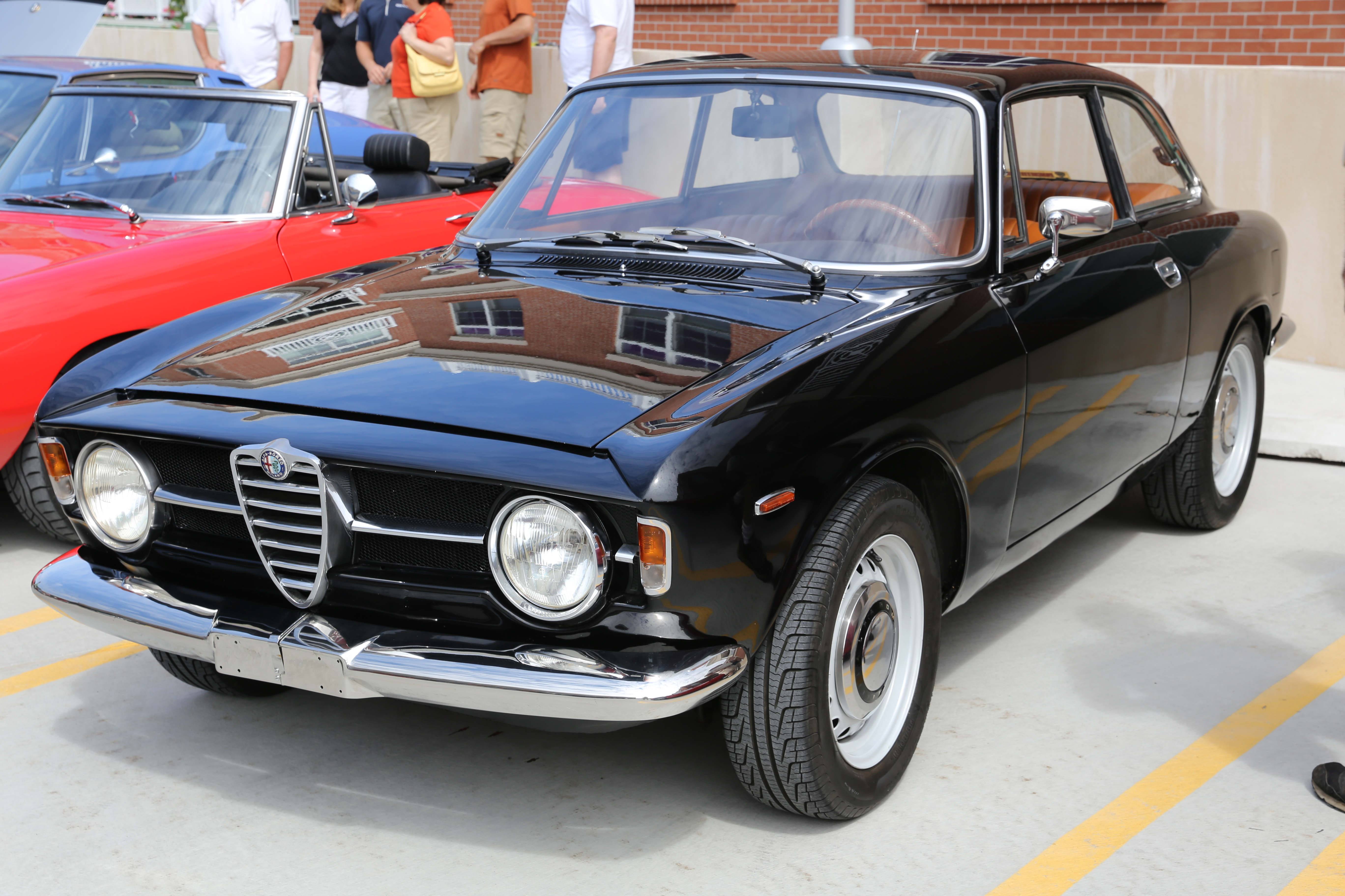 Classic Italian cars are often of indeterminate vintage. This car has the original dashboard coupled to a two-spoke steering wheel, which should make it a 1968, but many of these parts are easily changed down the road. One thing that is certain is that it's from before 1969 and still has the stepped bonnet.